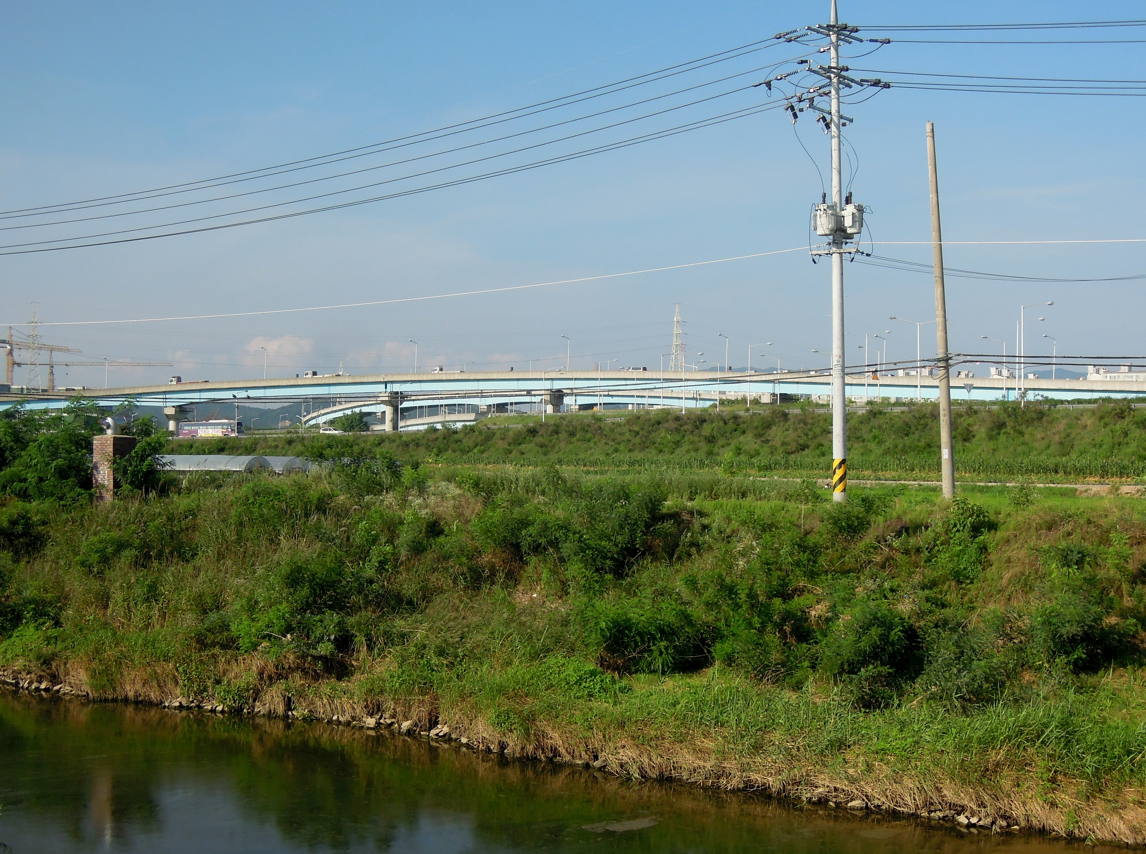 West Suwon IC, seen from the Hwanggujicheon in Dangsu-dong, Suwon, South Korea